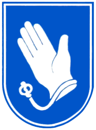 Coat of arms of Handschuhsheim in Heidelberg